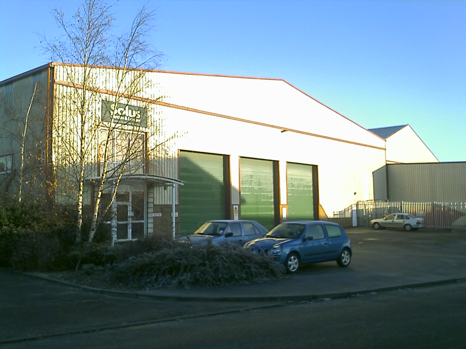 Photo of former RAF Rackheath aircraft hangar converted for commercial us.